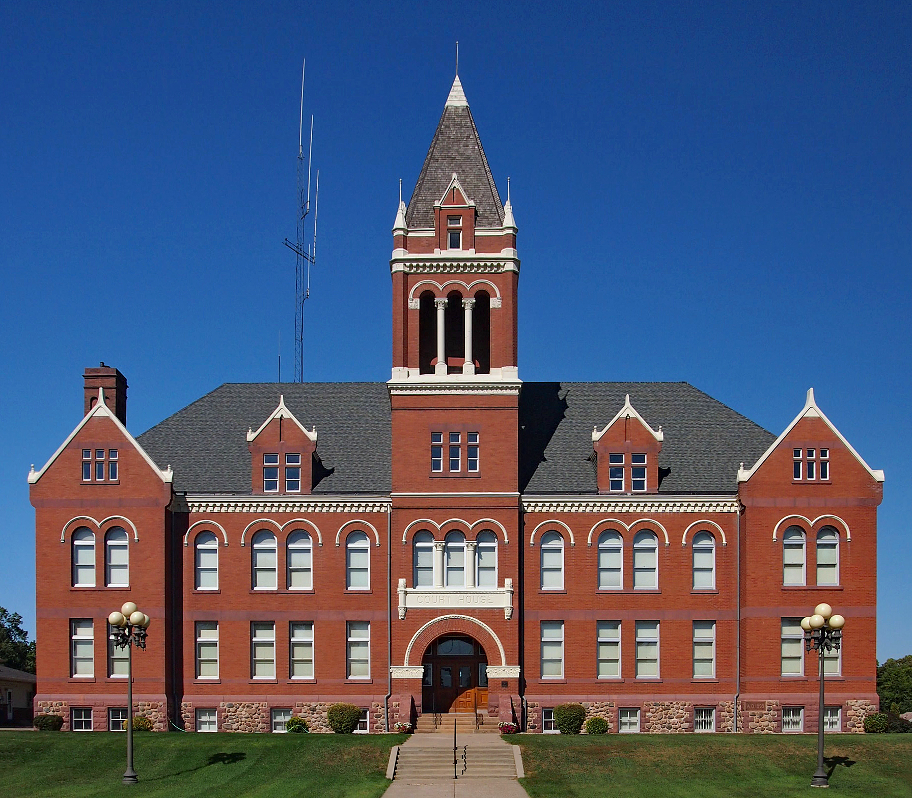 Lac qui Parle County Courthouse, 600 6th St, Madison, Minnesota, USA. Viewed from the south atop a stepladder, corrected for tilt distortion.